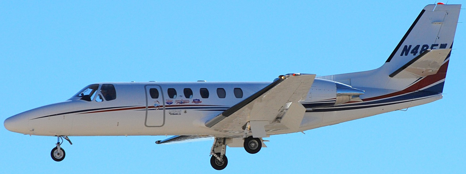 North Las Vegas Airport (IATA: VGT, ICAO: KVGT, FAA LID: VGT) 11-1-2010 By: TDelCoro